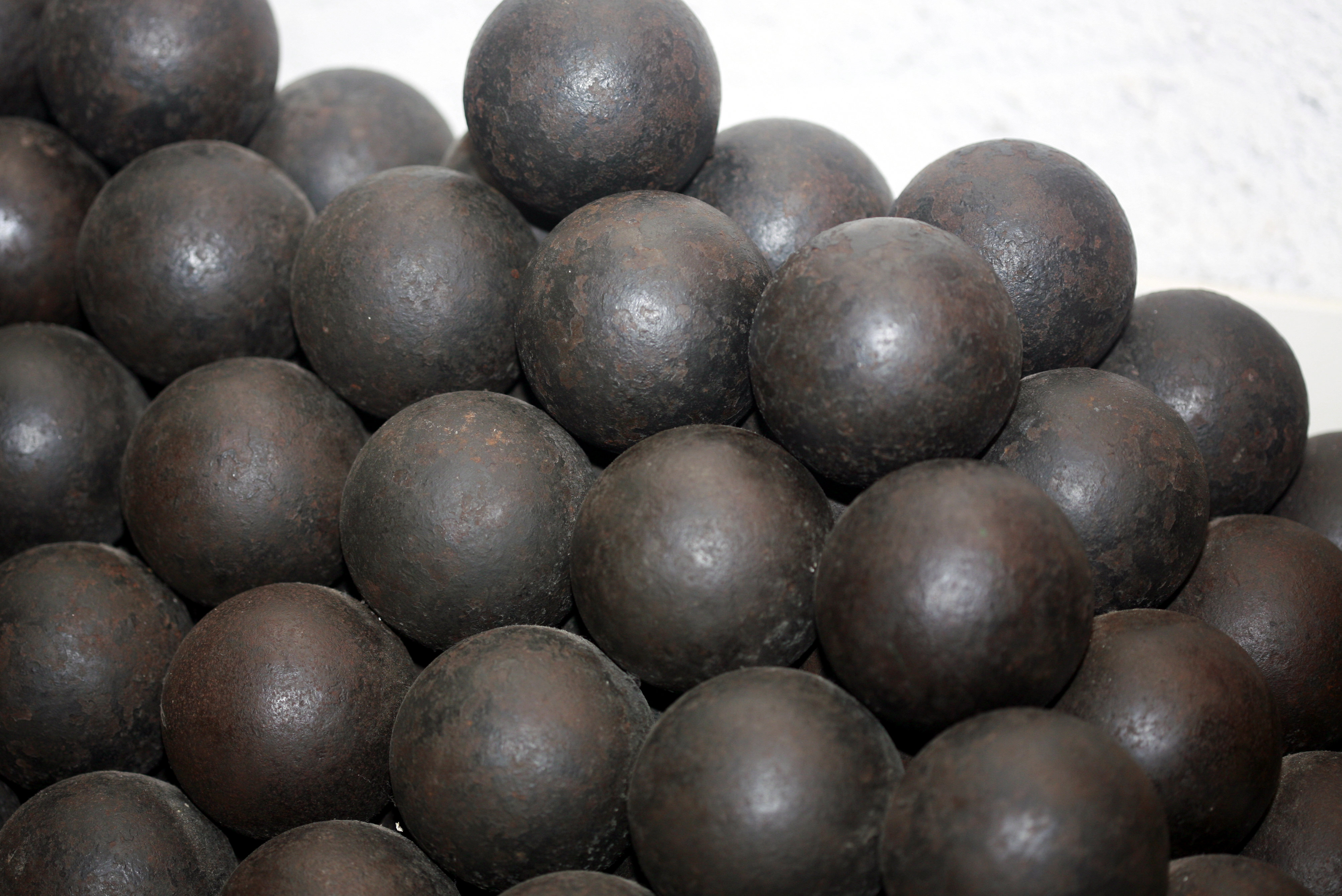 French officer smallsword, c. 1815